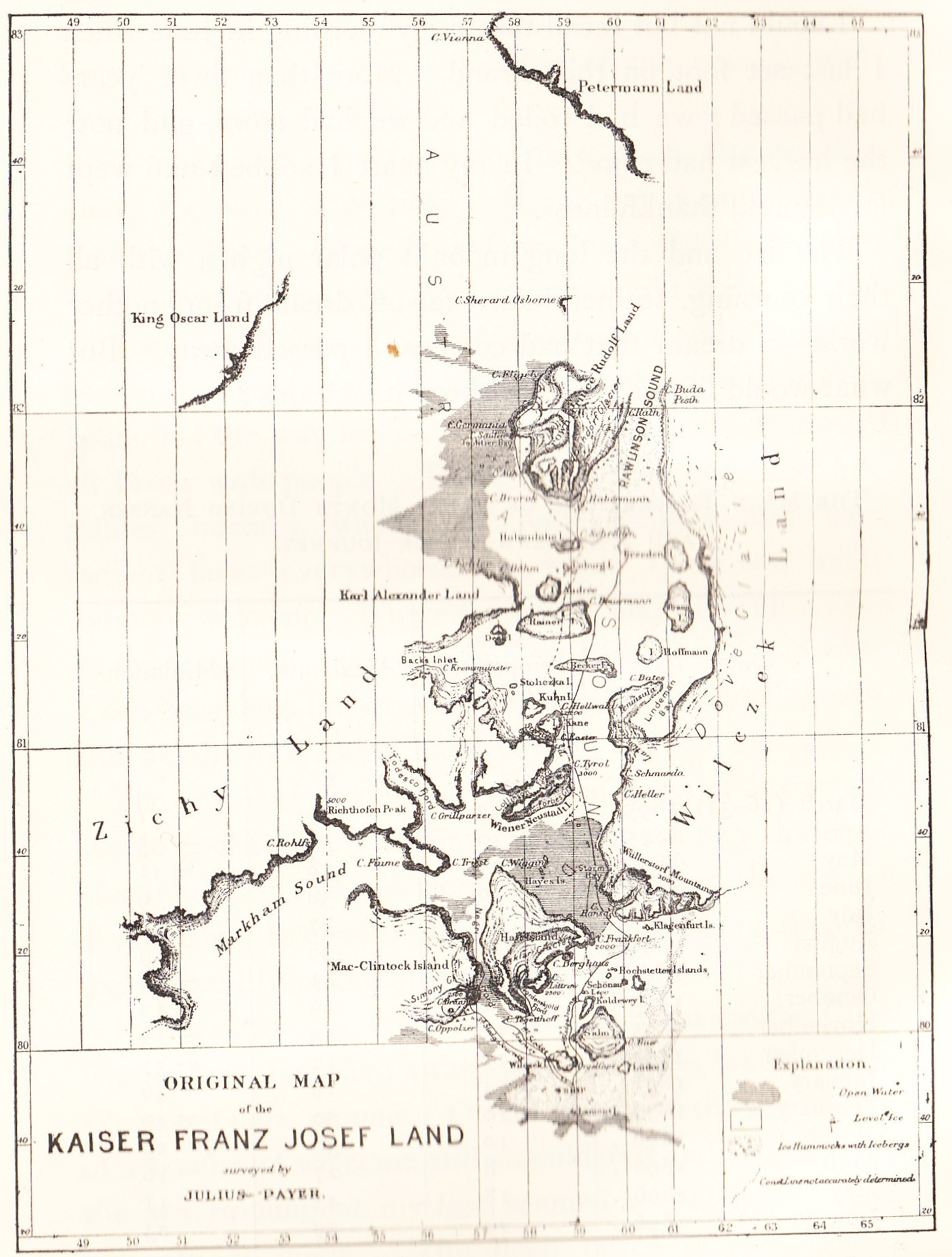 Old map of the Franz Josef Land archipelago drawn by the land's discoverer, Julius Payer